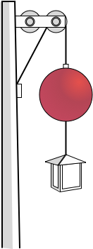 Ball signal is the most common signal on the early railways, the ball(Red) gave rise to the term "highball". When it was raised, it was safe to proceed. This was later reversed.